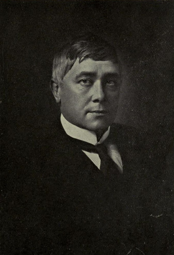 Maurice Maeterlinck